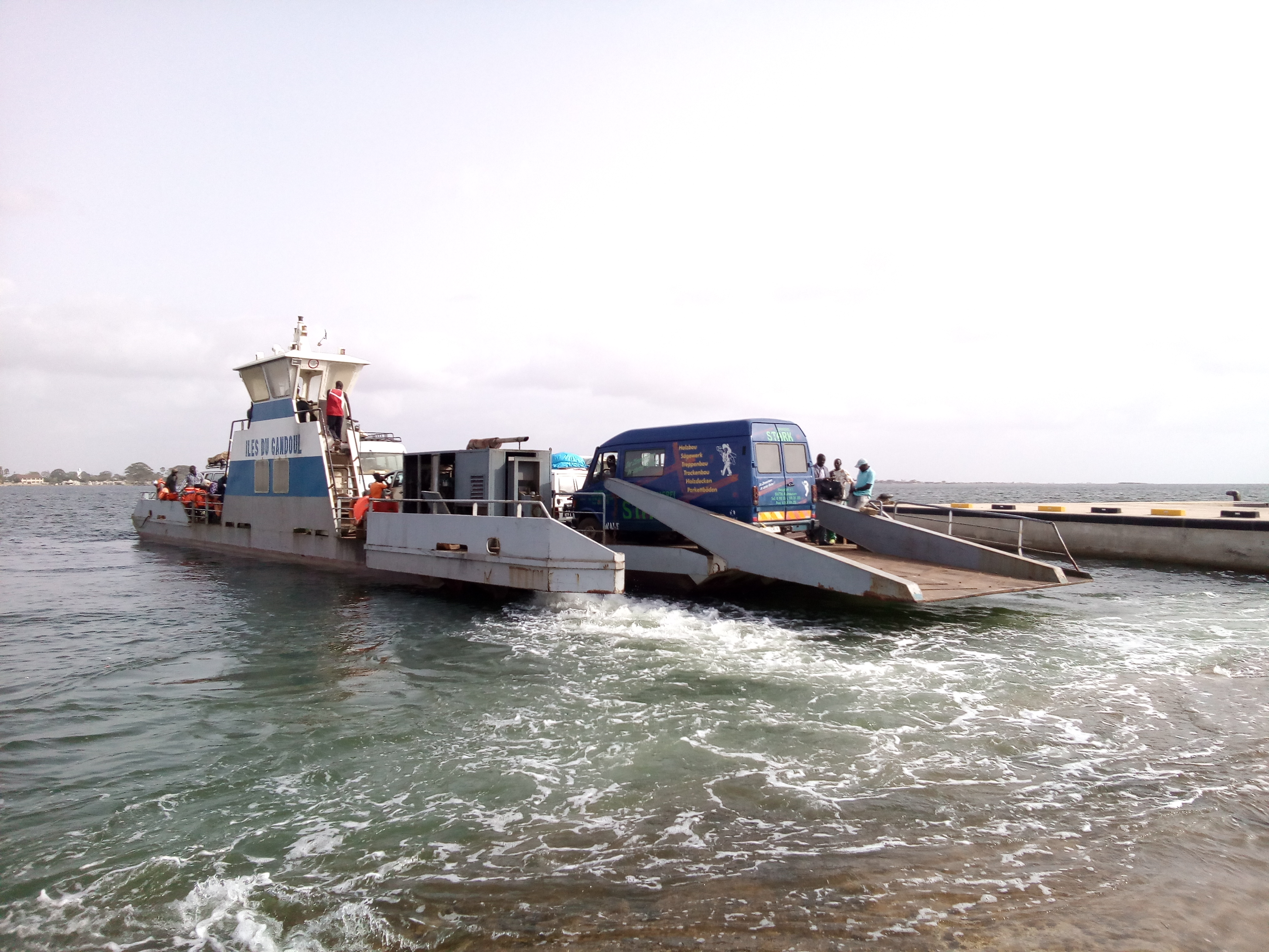 Foundiougne ferry leaving from the right bank (north bank, towards Fatick)